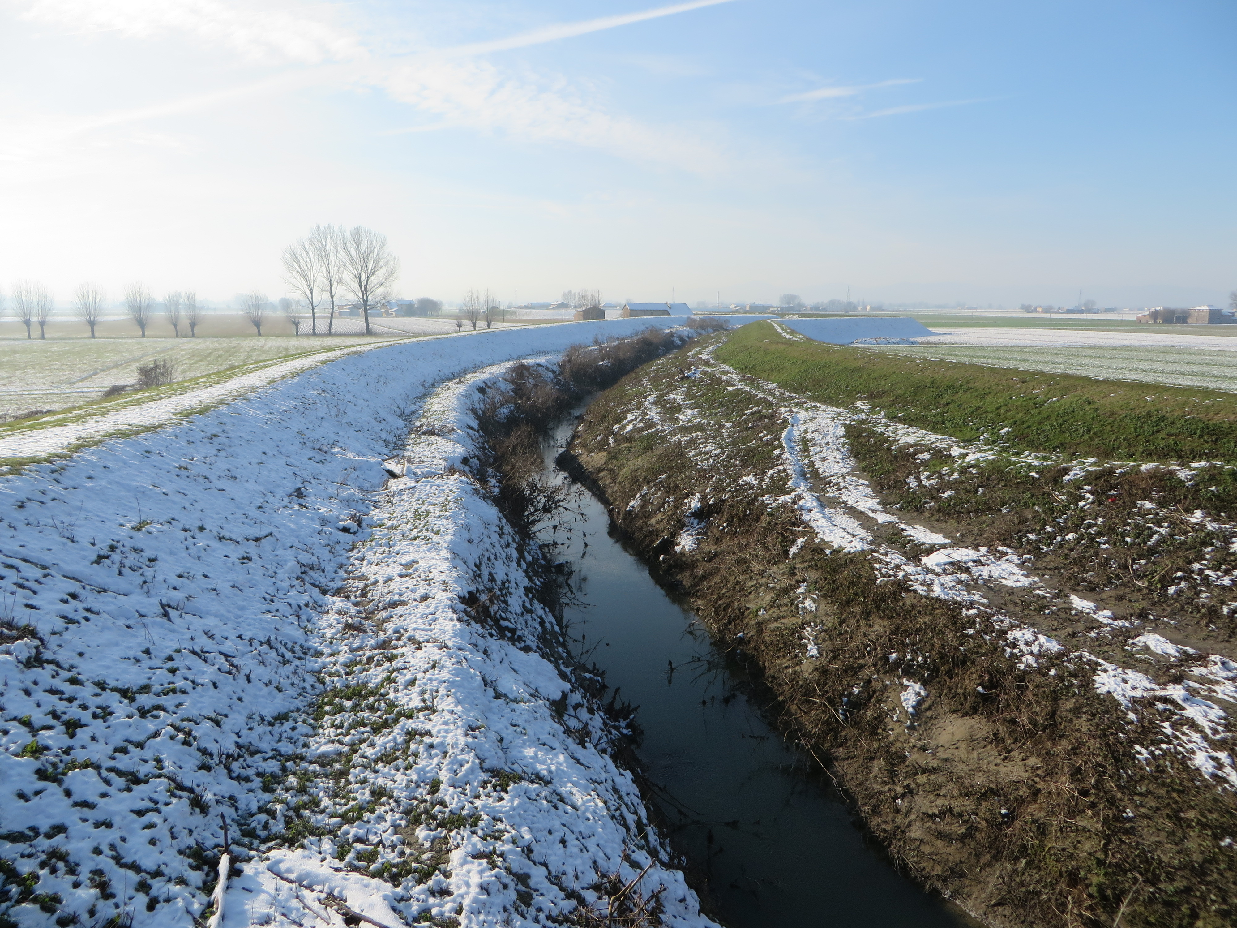 Rovacchia river